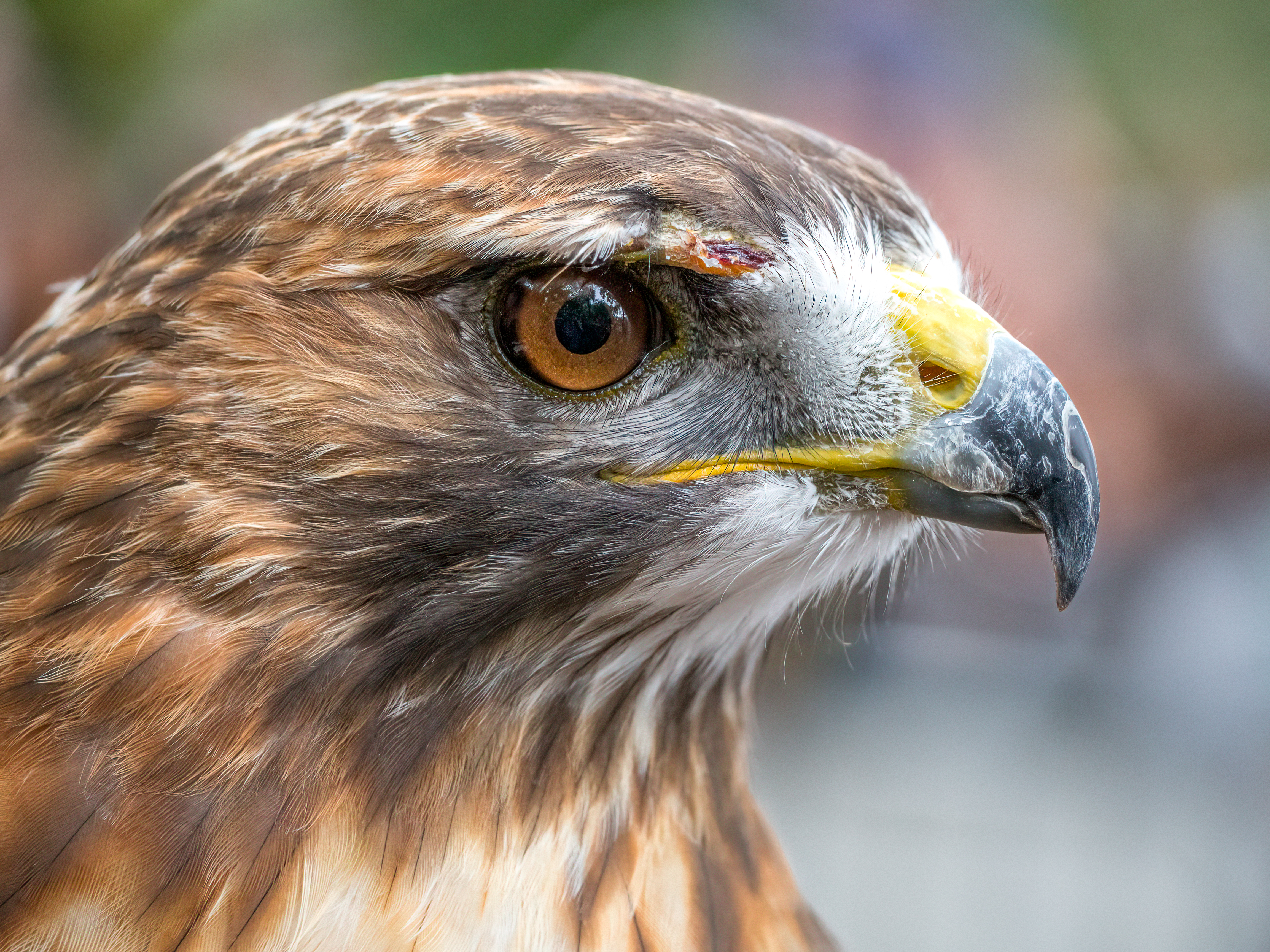 A rehabilitated red-tailed hawk at Raptor Fest, a wildlife conservation event held by NYC Parks in Central Park. The "ambassador" birds are all rehabilitated animals that cannot be released into the wild.